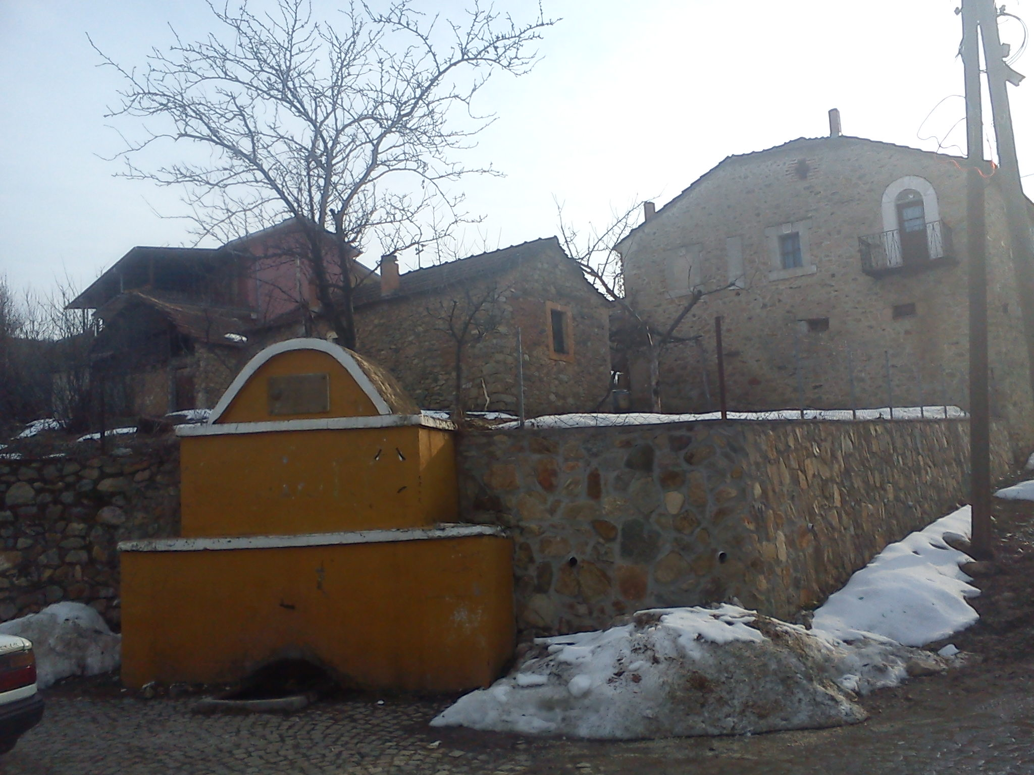 Village fountain in Bukovo, Macedonia